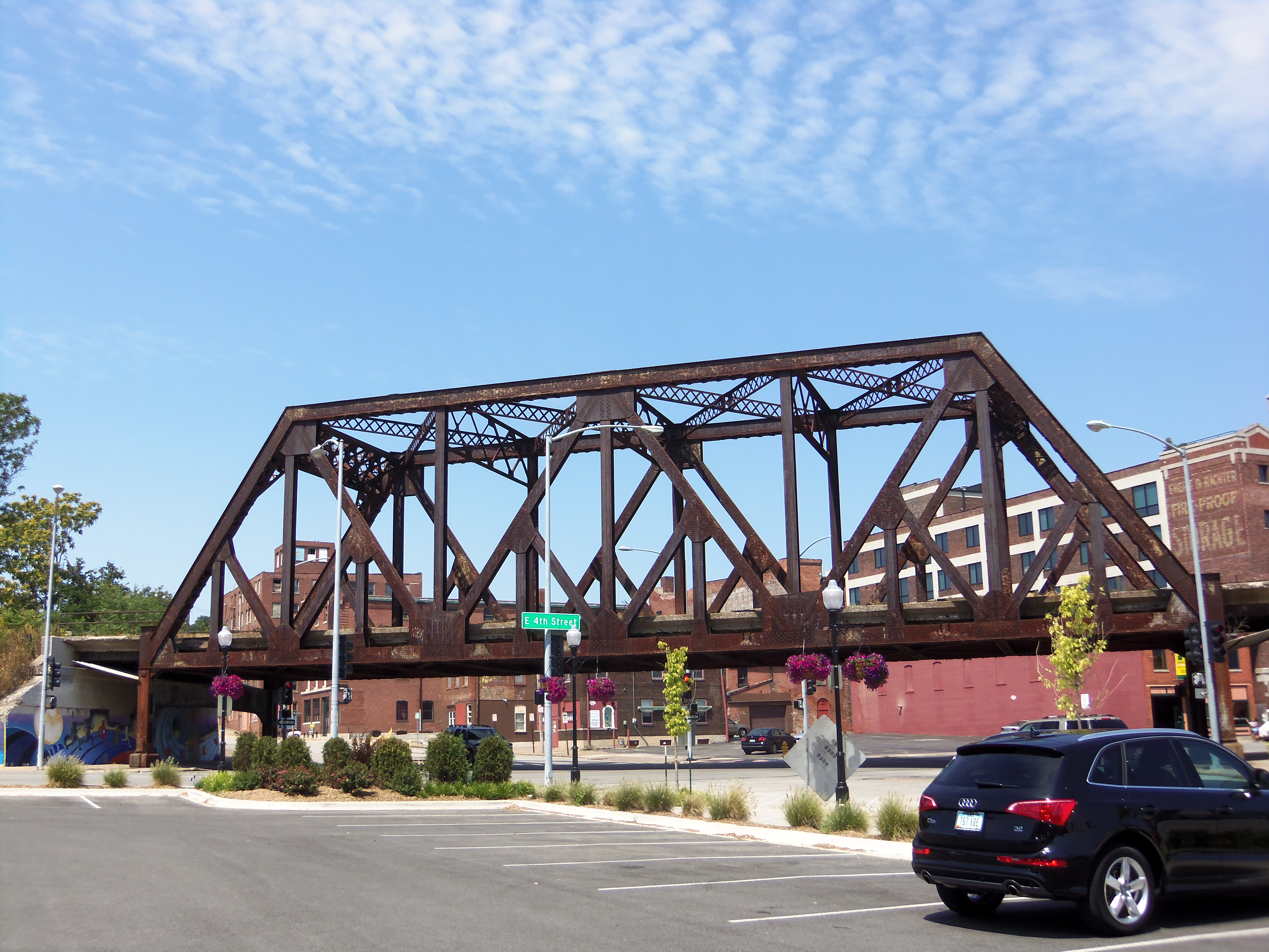 The CRI&P Viaduct in downtown Davenport, Iowa is a contributing structure in the Crescent Warehouse Historic District, which is listed on the National Register of Historic Places. The bridge crosses the intersection of East Fourth and Pershing Streets. It is now used by the Iowa Interstate Railroad.